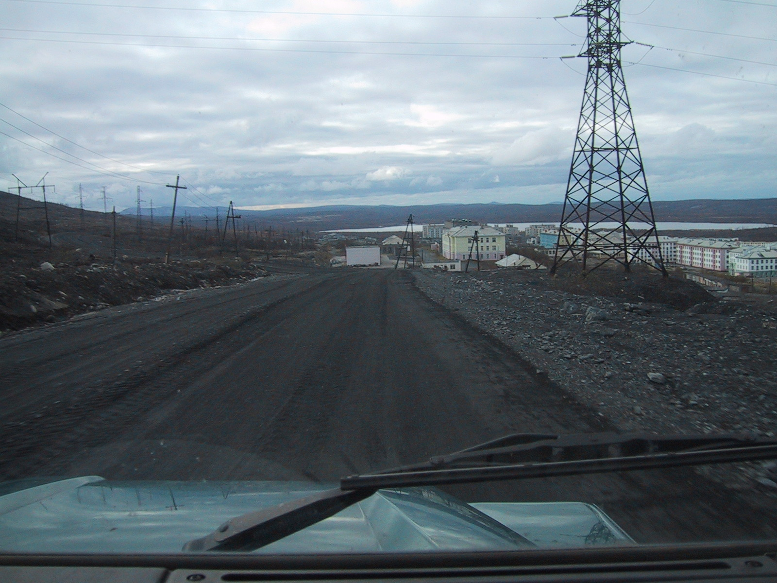 Photo of the town Nikel in Russia's Murmansk Oblast.